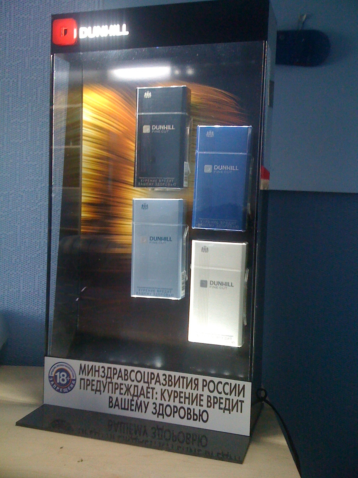 Dunhill Fine Cut